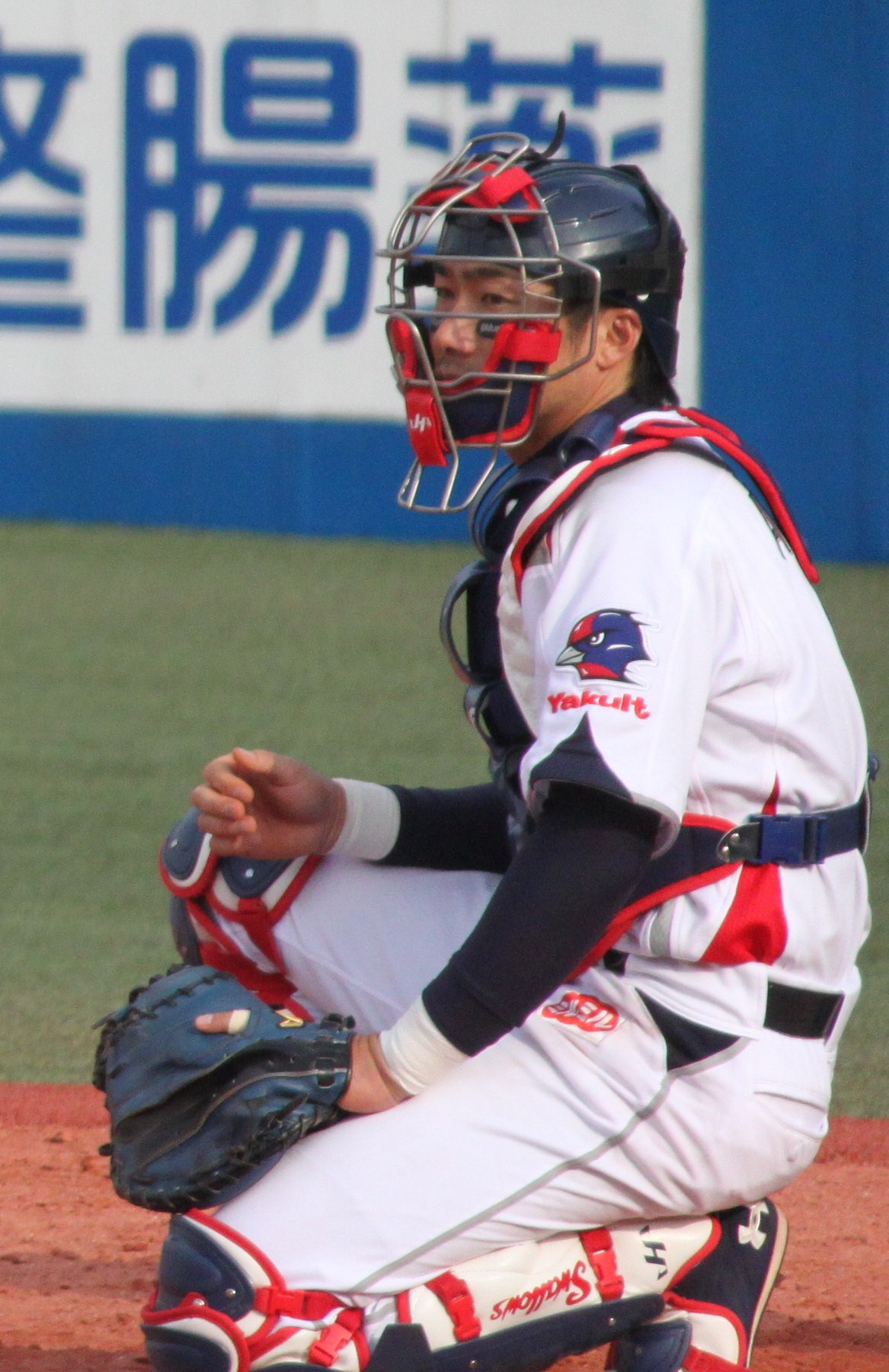 Ryoji Aikawa, catcher of the Tokyo Yakult Swallows, at Meiji Jingu Stadium.